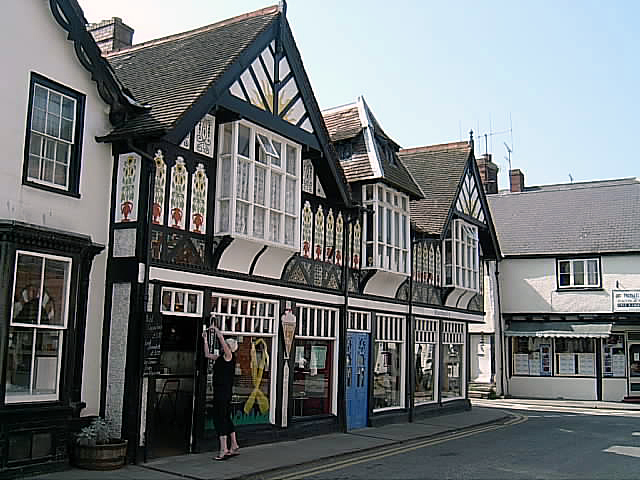 Presteigne Style The Radnor Building in Hereford Street, Presteigne. Great Ice-cream by the way!